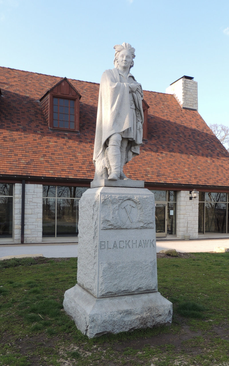 Statue of Blackhawk at the Hauberg Indian Museum on the Blackhawk State Historic Site in Rock Island Illinois